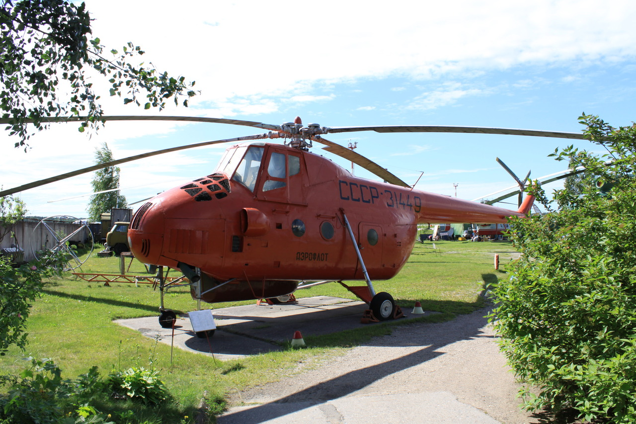 Mi-4, Riga